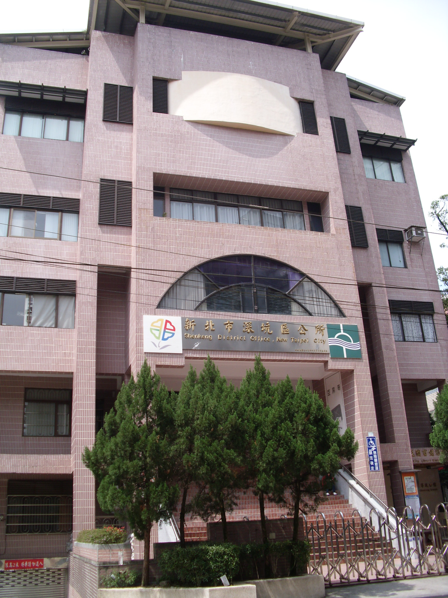 Shenkeng District OfficeBân-lâm-gú: 新北市深坑區公所